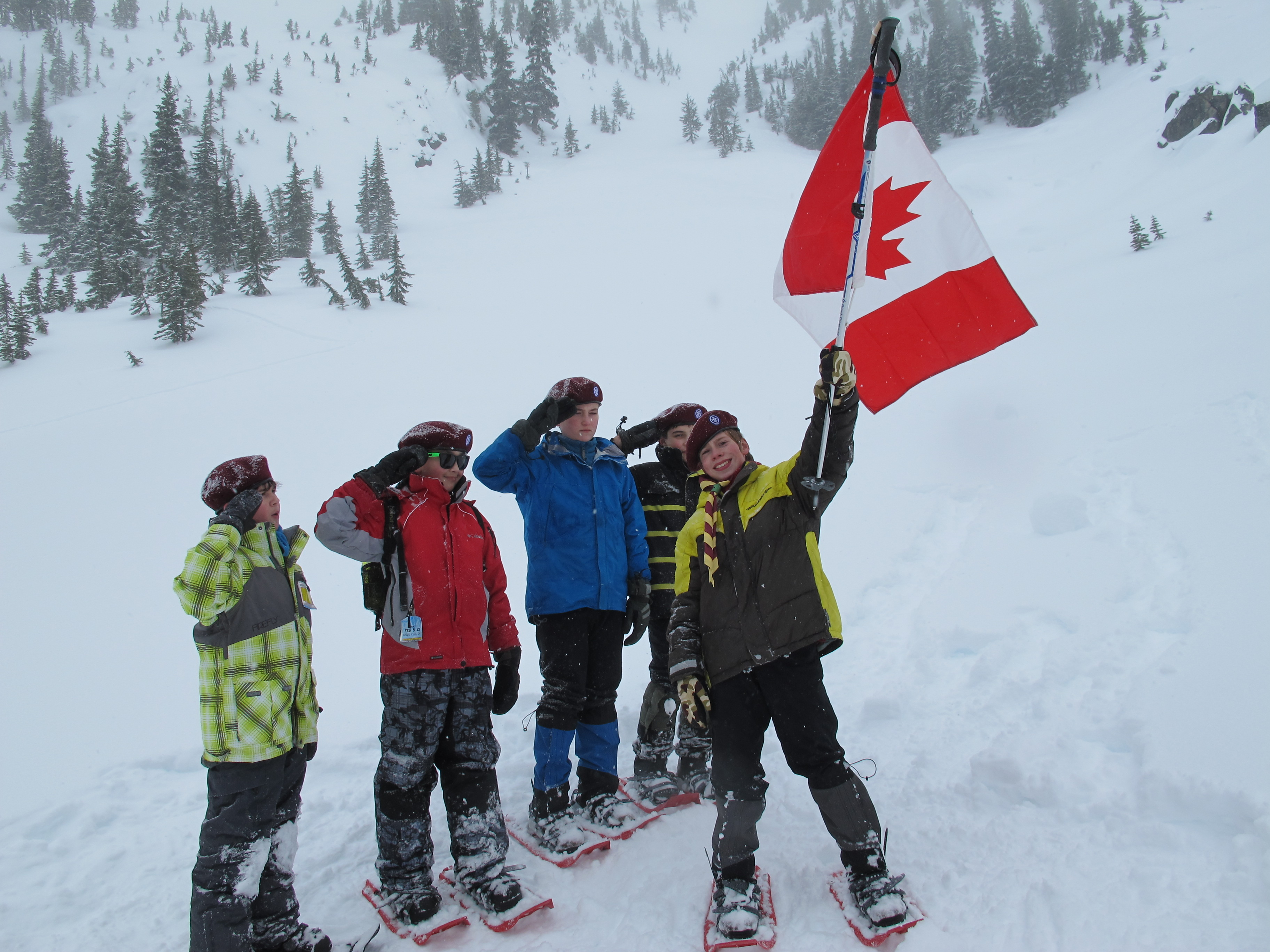 Mountaineer Scouts perform an Investiture Ceremony 6,300 ft up in the mountains of Joffre Lakes Provincial Park. February 18, 2012.